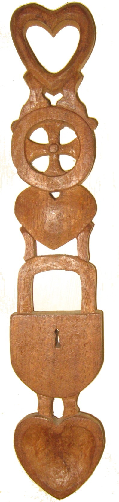 Welsh lovespoon (Background removed)